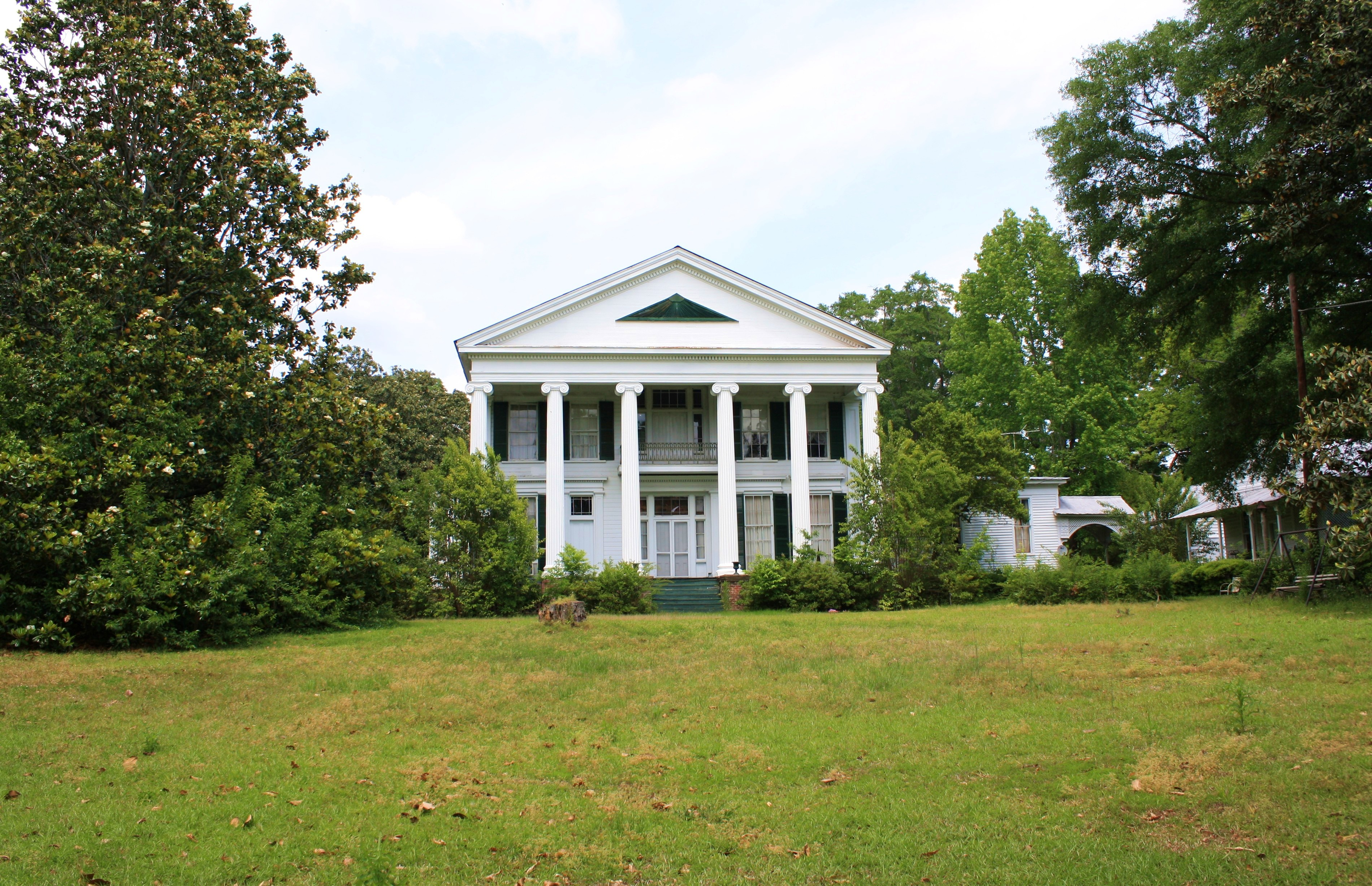 Southern facade of Magnolia Hall in Greensboro, Alabama, as viewed from Tutwiler Street.